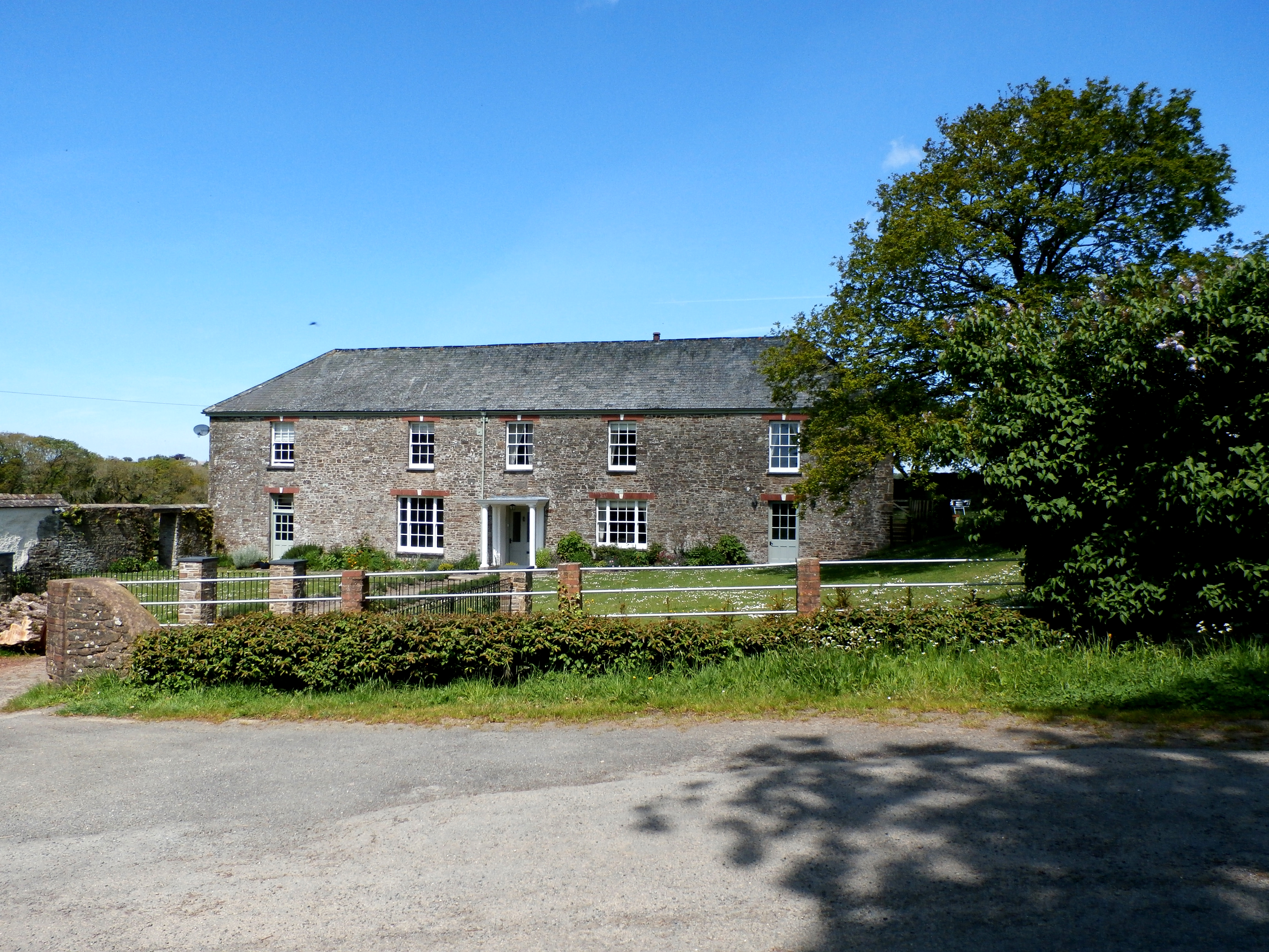 Langley Barton in the parish of Yarnscombe (or High Bickington?), Devon. The historic seat of the Pollard family of Langley, a junior branch of the Pollards of Way in the parish of St Giles in the Wood, Devon.